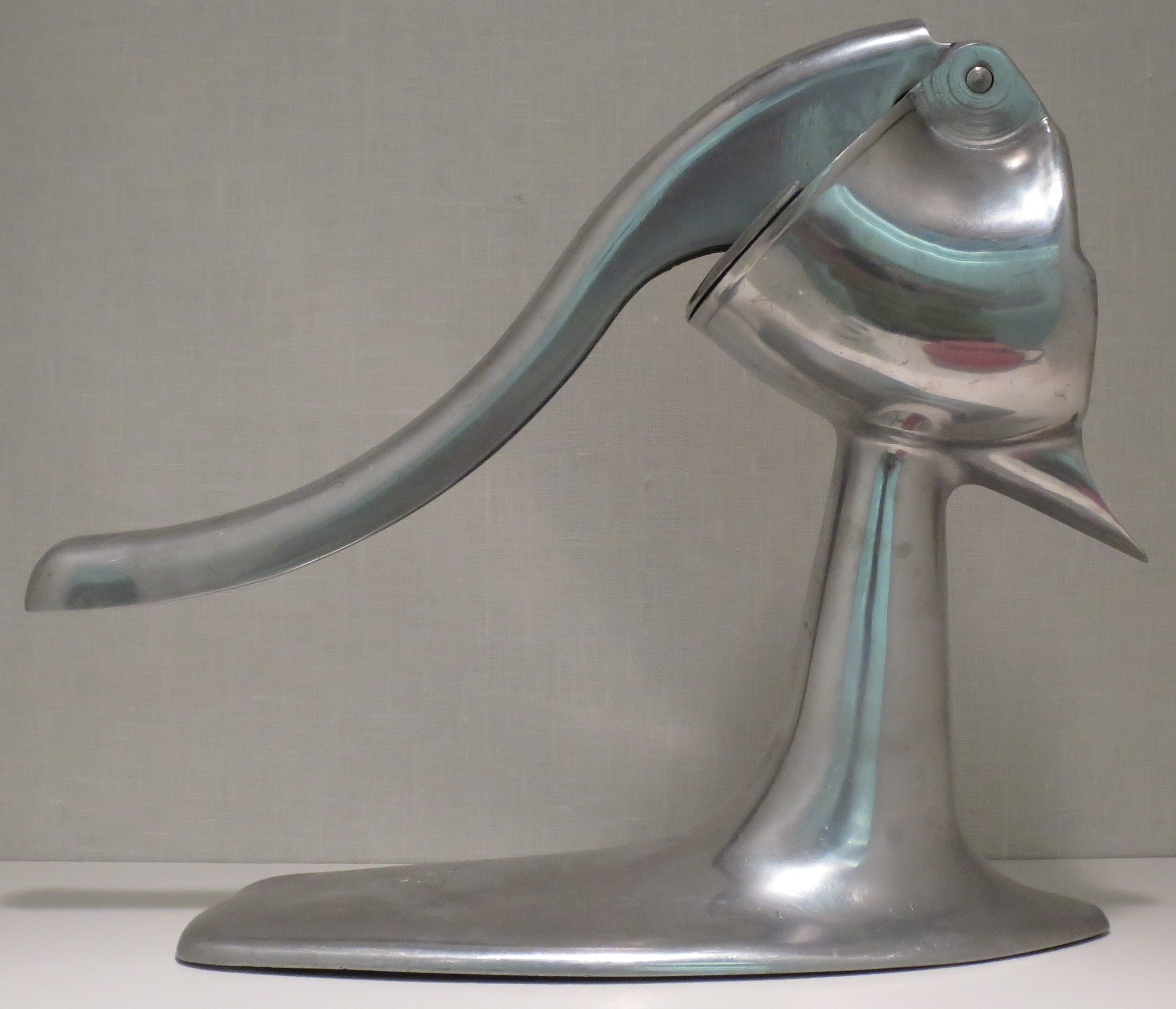 Juicer, c. 1935, made by Licht Perle, Germany, aluminum, Wolfsonian-FIU Museum